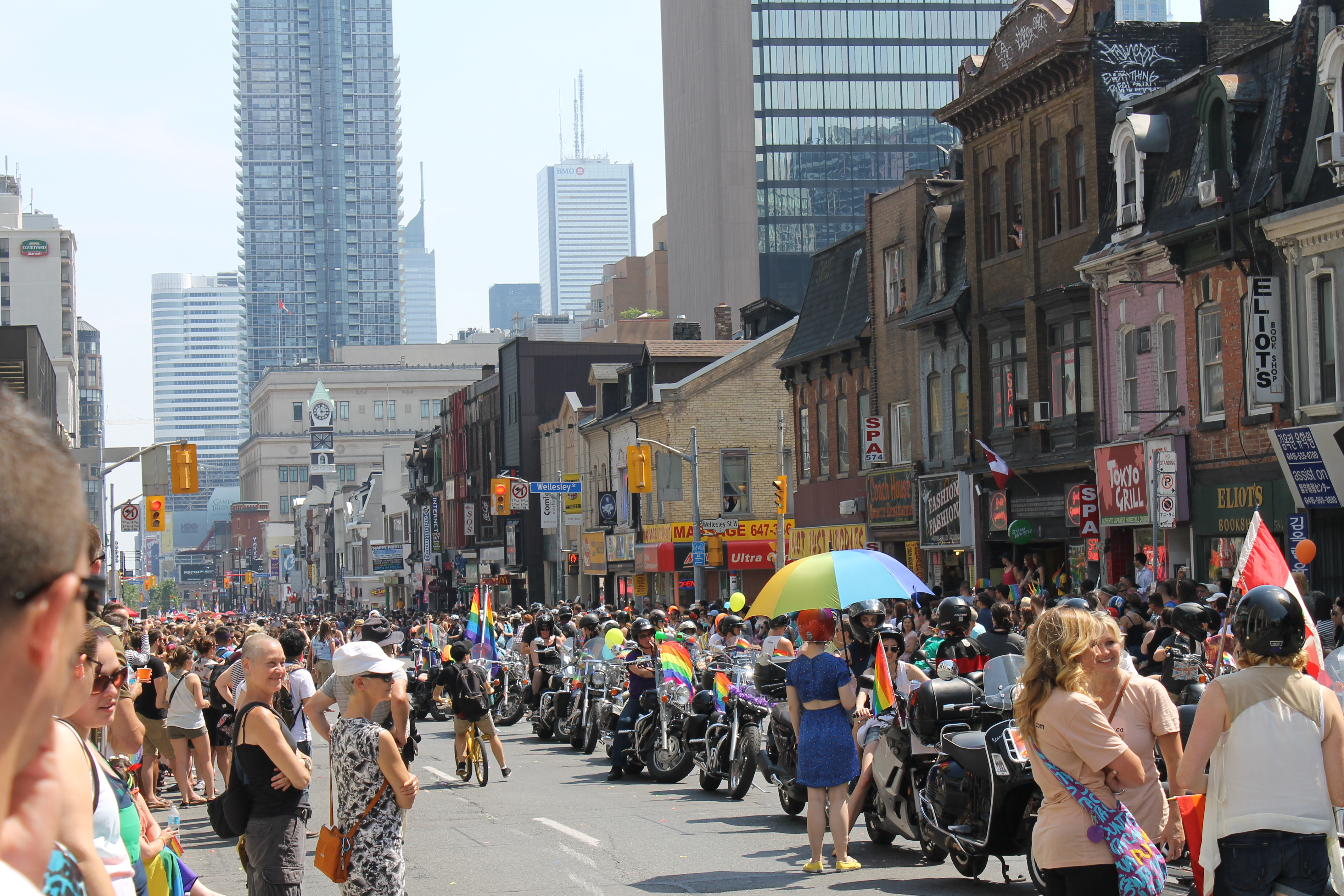 In 2014, Toronto hosted WorldPride.